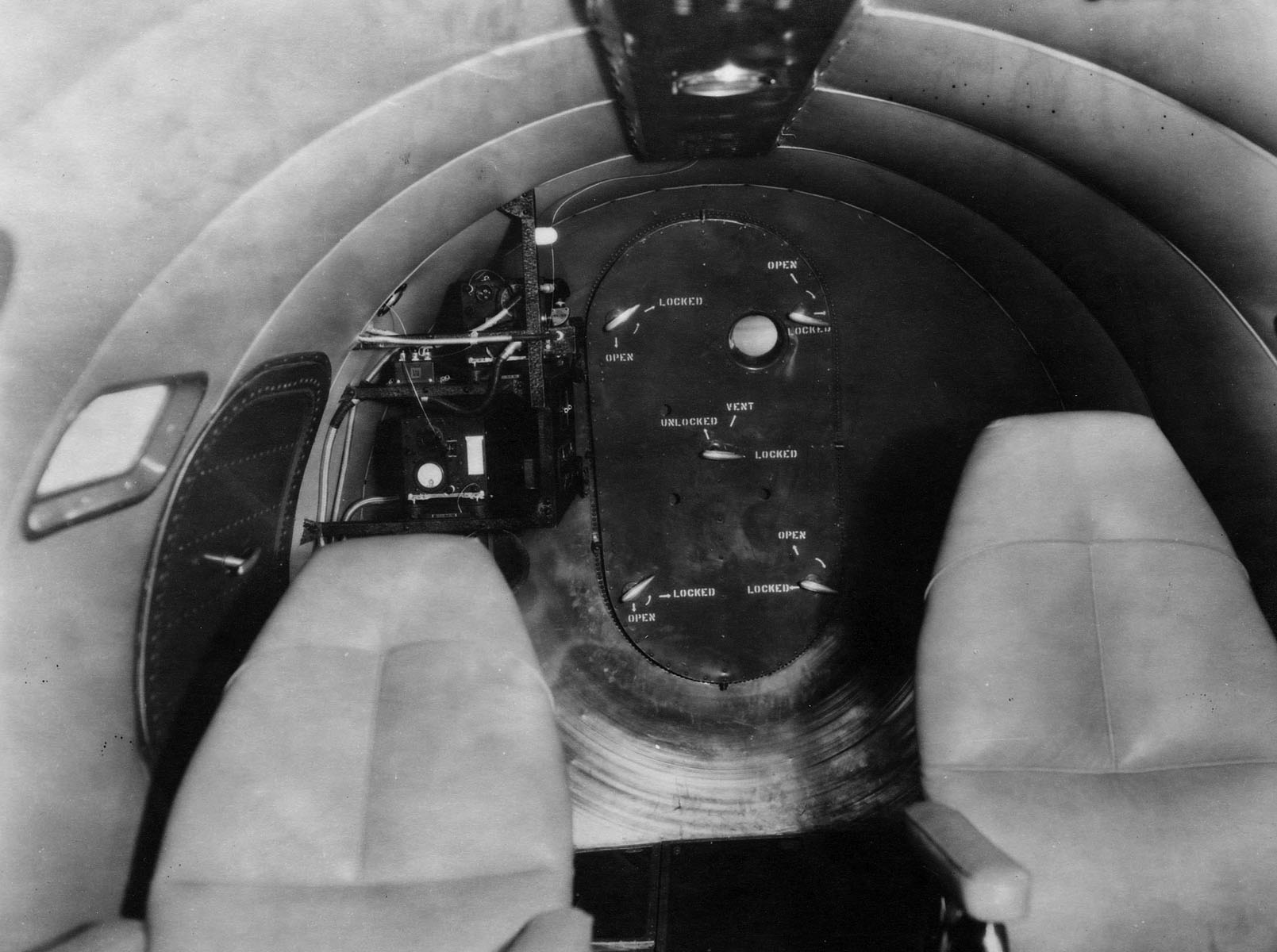 Lockheed XC-35 interior view, looking aft toward two passenger seats and closed pressure bulkhead hatch. (U.S. Air Force photo)